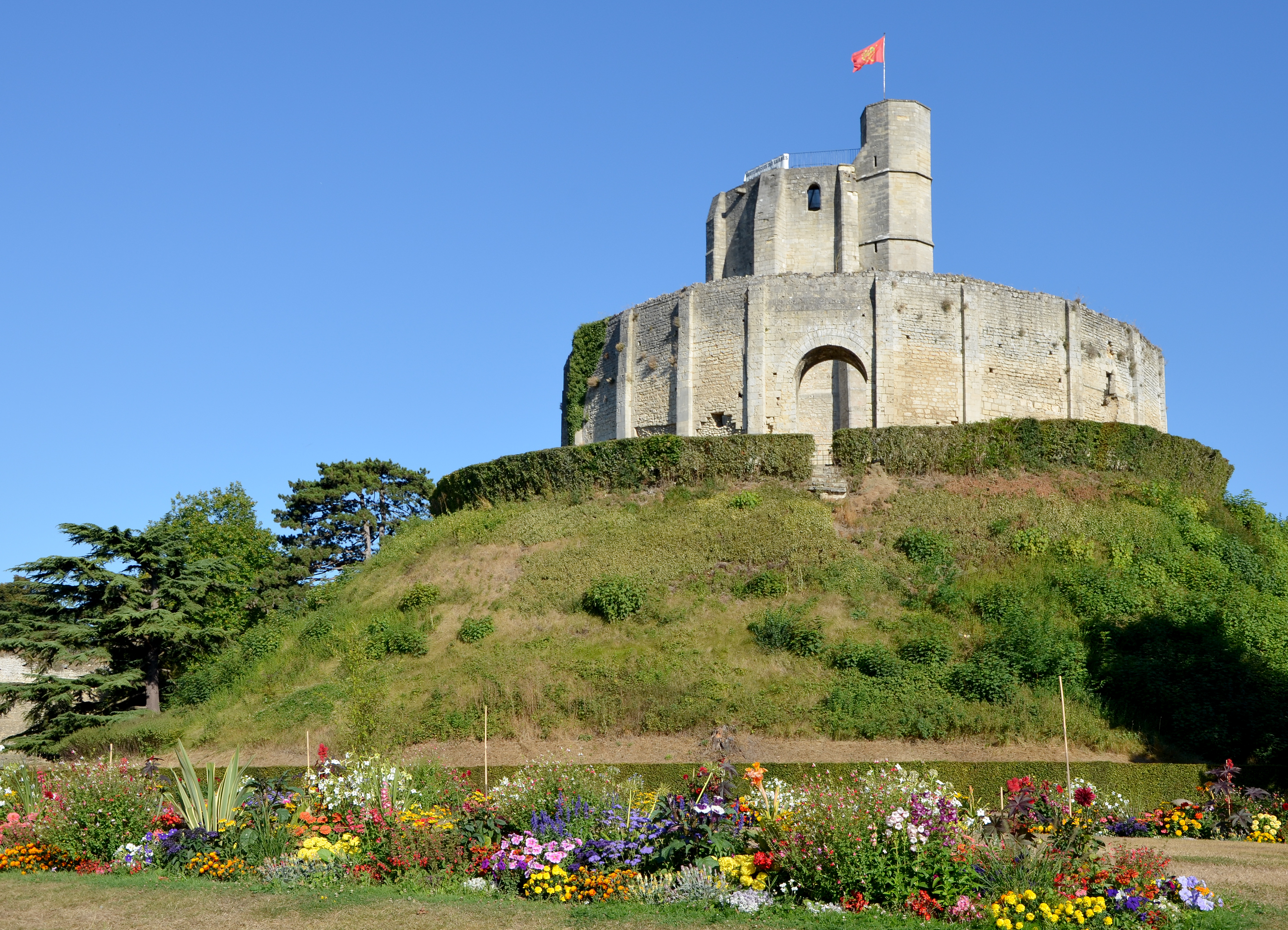 Castle of Gisors, Eure, Normandy, France